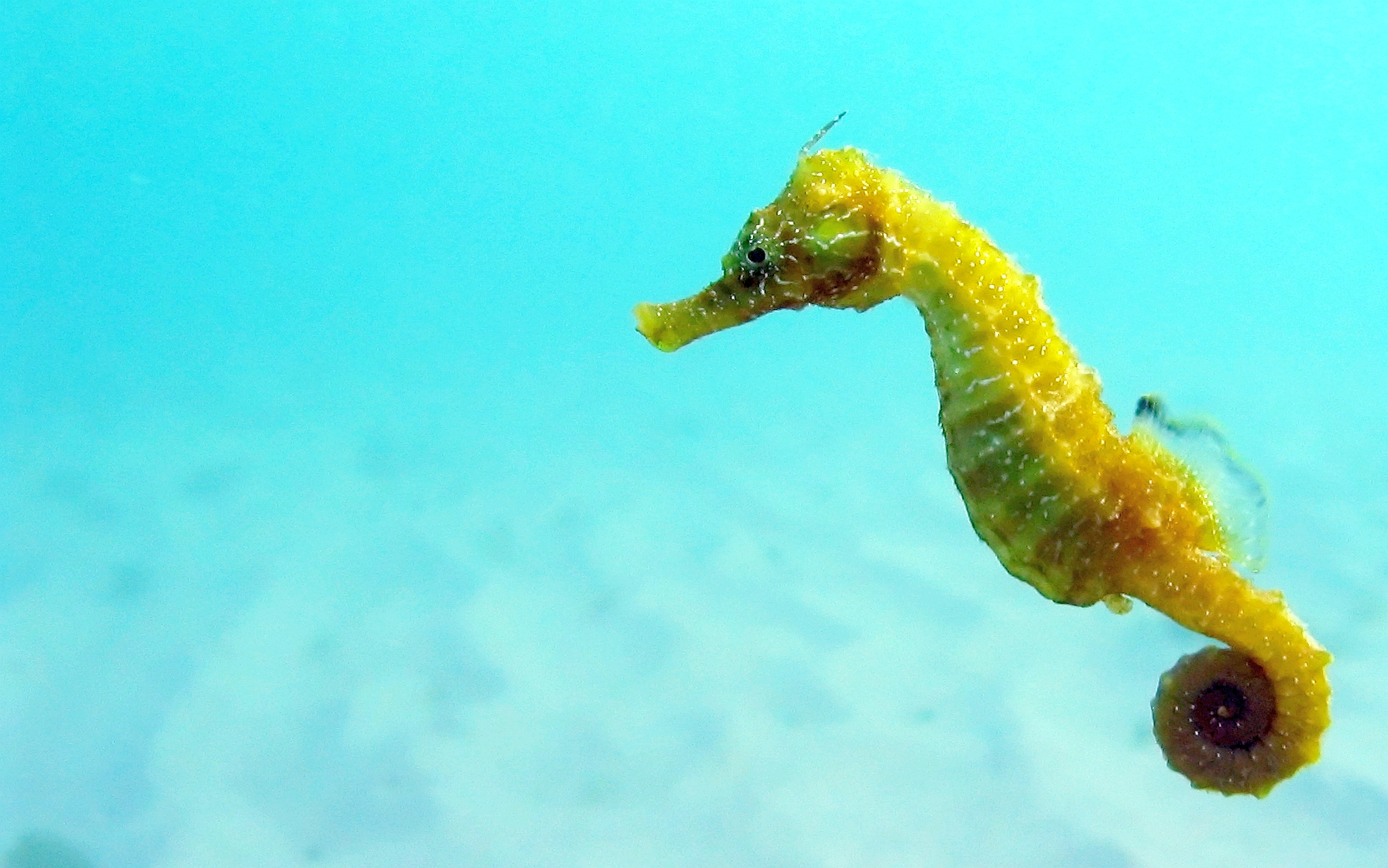 The Black-Sea seahorse is a rare sight in the shallow waters of Eforie-Sud.